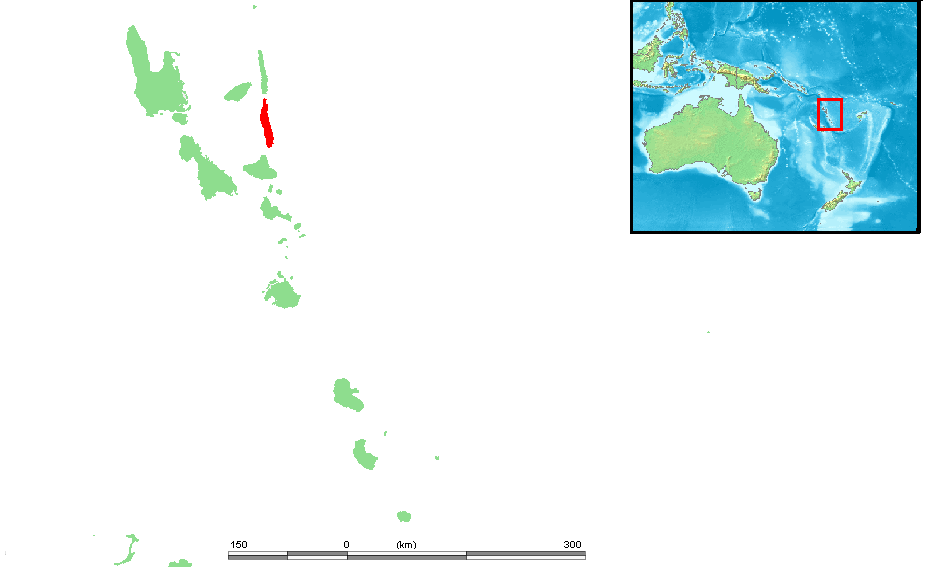 Locator map of Pentecost Island — in Vanuatu.